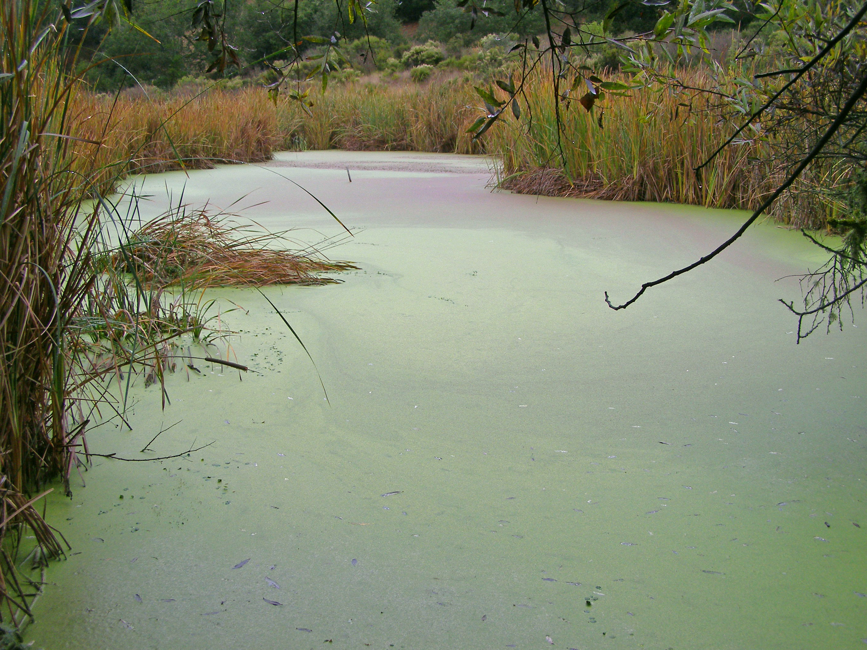 photographer:self